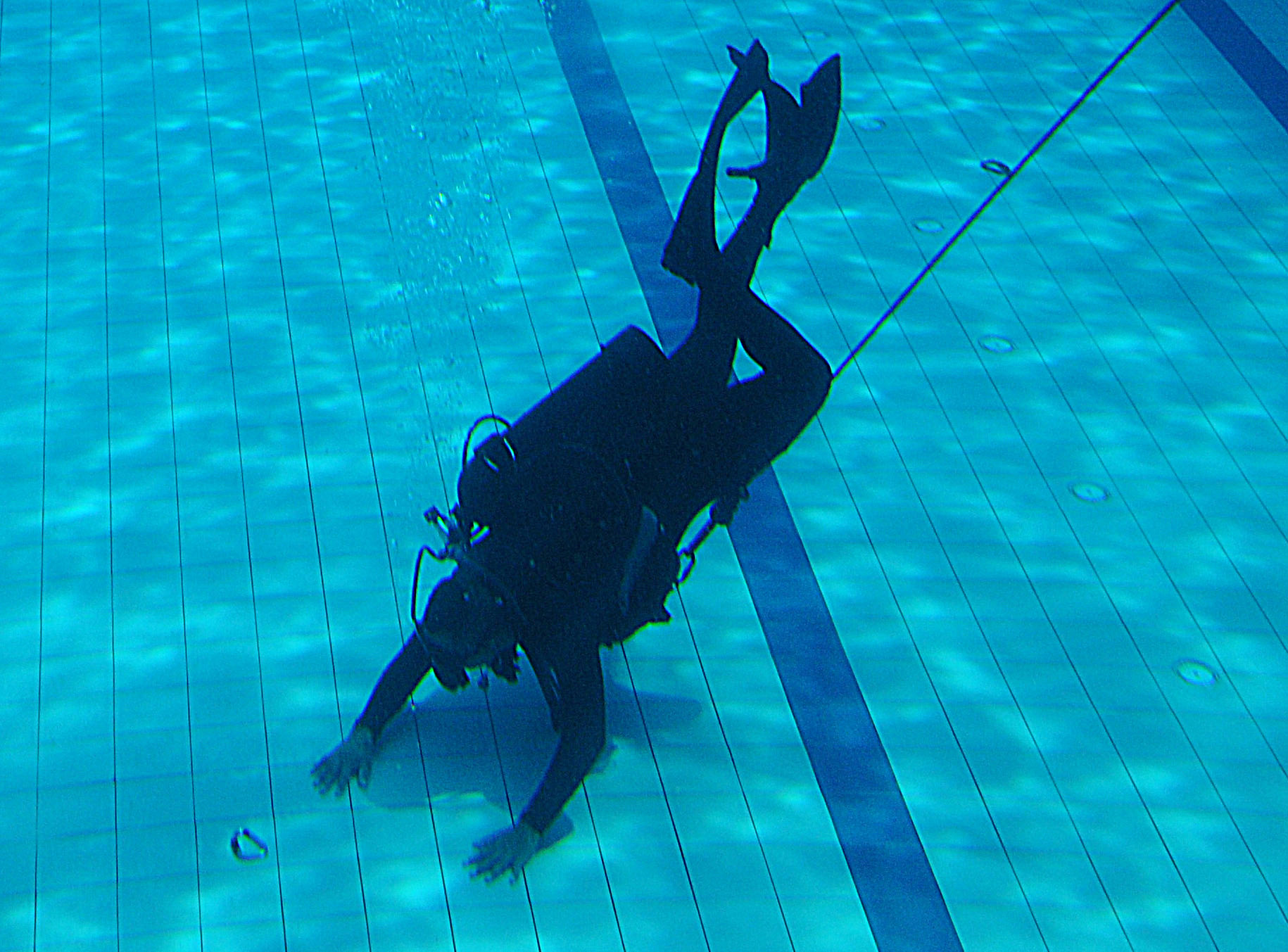 A Paskau member of the Royal Malaysian Air Force attempts to recover an item during an underwater search and recovery course here May 28 as part of Teak Mint 09-1. U.S Air Force photo by Tech. Sgt. Aaron Cram (RELEASED).